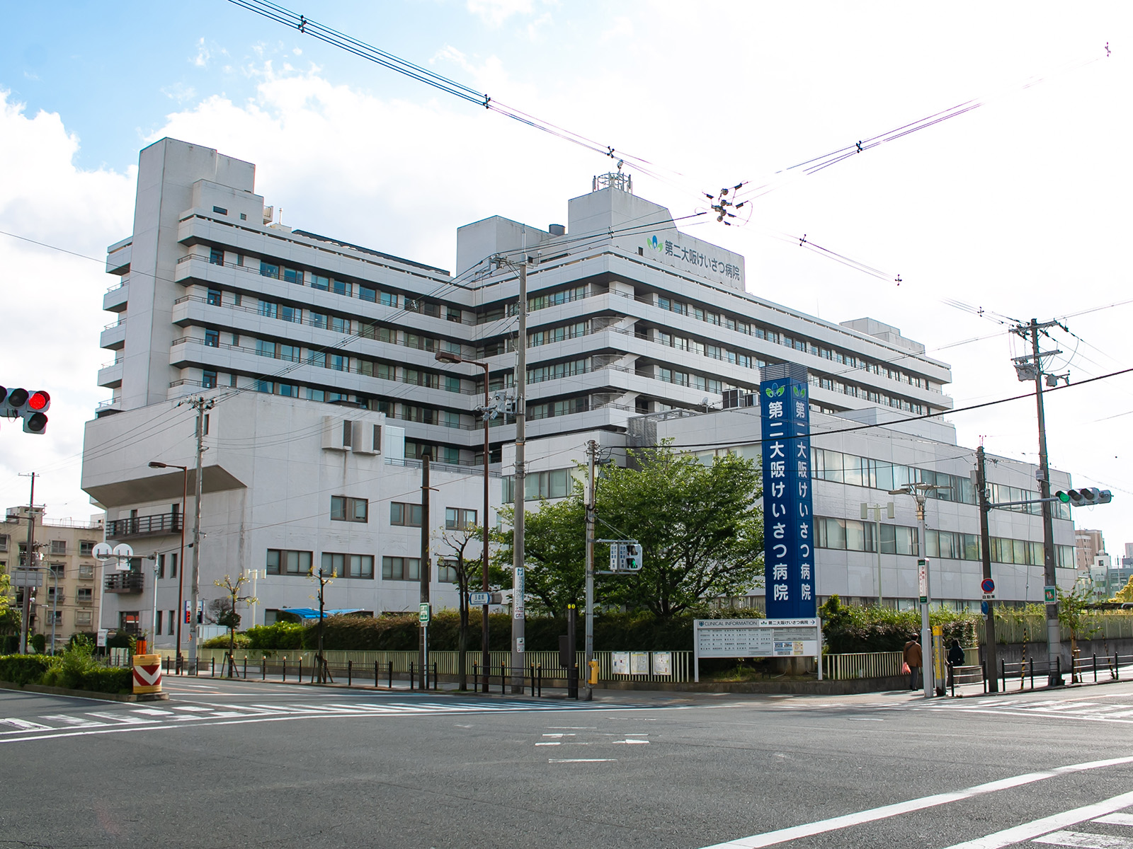 Osaka Police Hospital No. 2